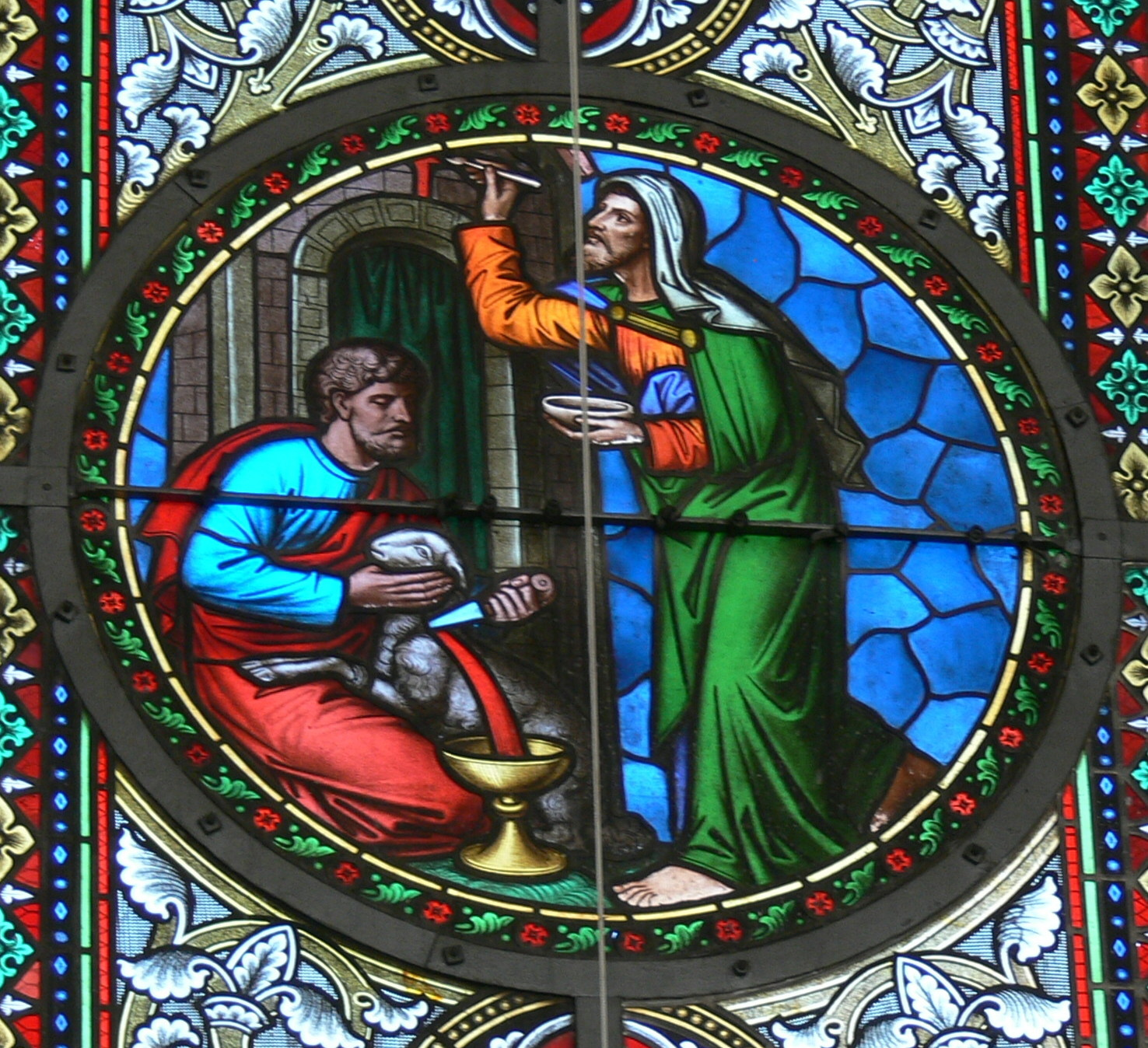 Andelsbuch ( Vorarlberg ). Saint Peter and Paul parish church: Stained glass window ( 1880 ) showing the sacrifice of passover during the plagues of Egypt.